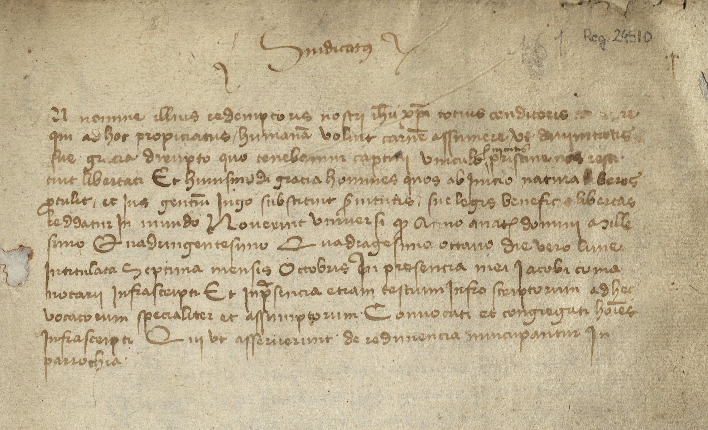 The Llibre del Sindicat Remença (Peasant Syndicate Book) is a handwritten record in Latin between 1448 and 1449 containing the proceedings of meetings between serfs (remences) in various Catalan dioceses to select the syndics, who were entrusted with negotiating the abolition of serfdom with the monarchy due to seigneurial abuses. The 1448 Peasant Syndicate was a precedent that expressed the will of serfs from a wide area, which makes it exceptional.